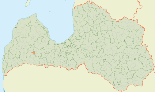 Location of Saldus Parish in Latvia